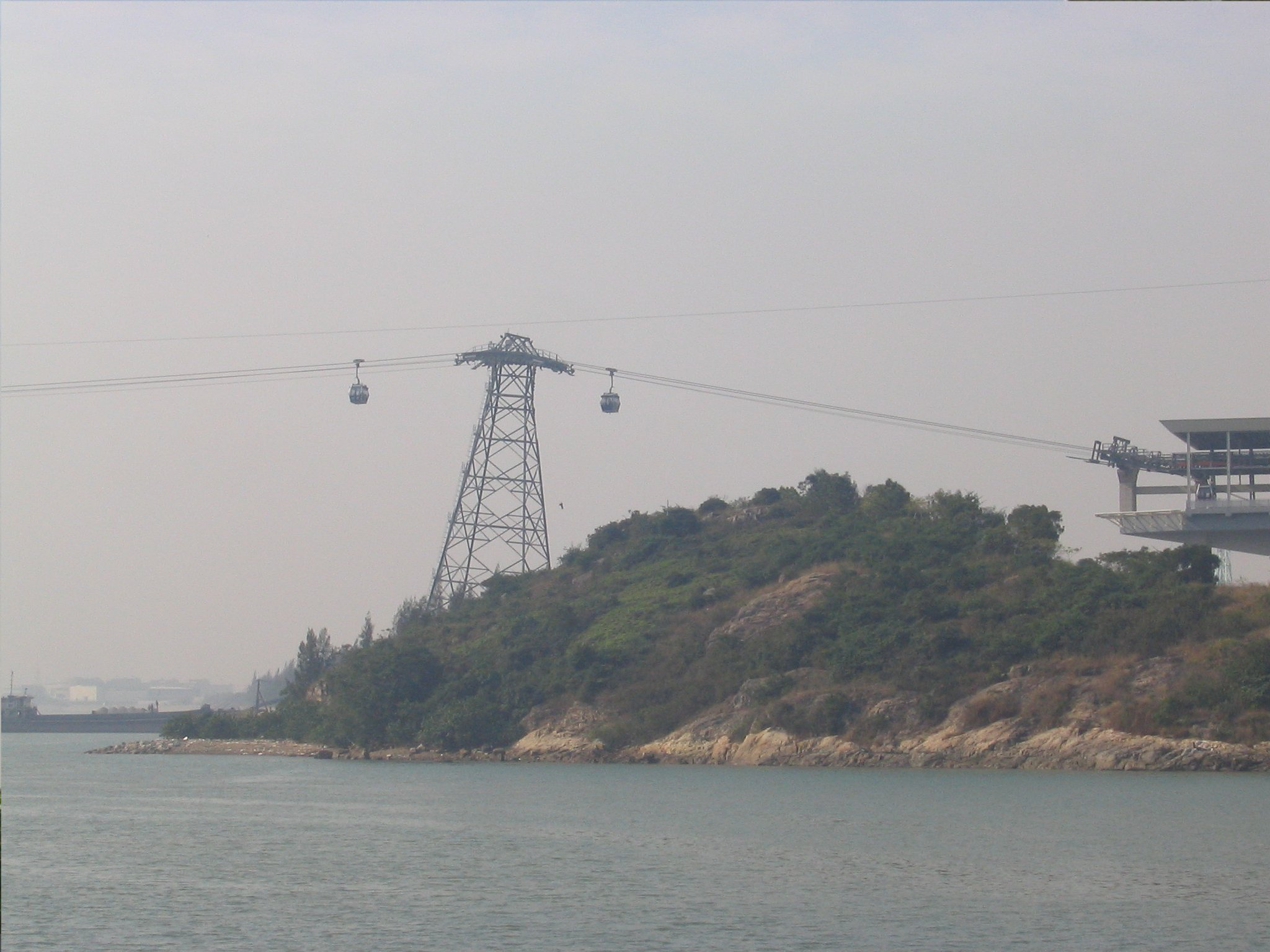 昂坪360-近赤鱲角轉向站(T2B塔) Ngong Ping 360 at angle station (T2B) near Chek Lap Kok South Road